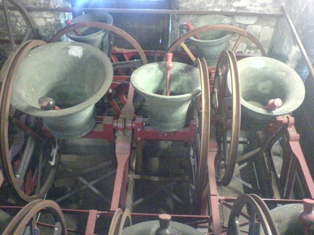 Some of the 10 bells in the west tower of St Mary's parish church, Beddington, Greater London. The Whitechapel Bell Foundry cast them at various dates between 1831 and 1877.